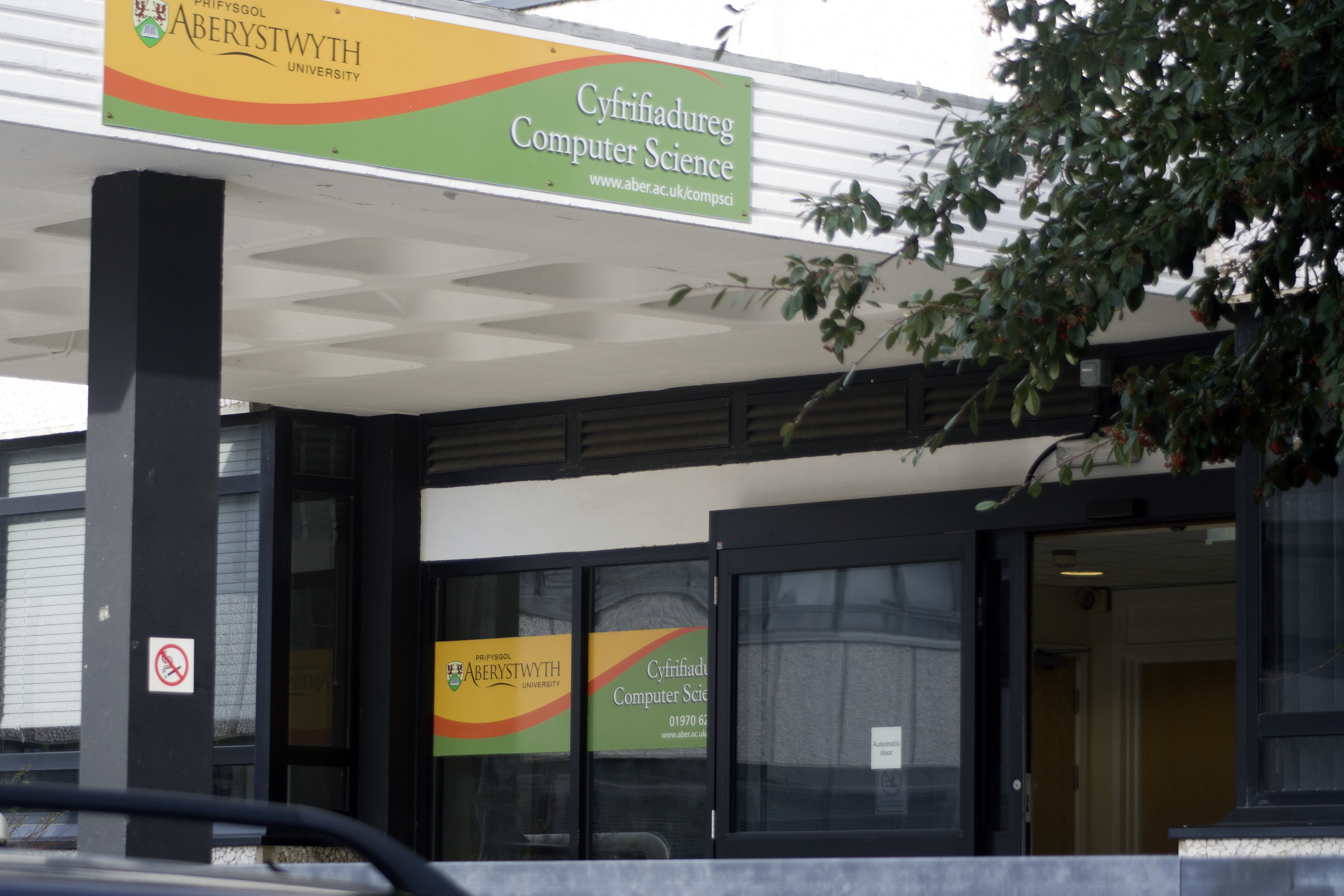 The front entrance of the Computer Science department at Aberystwyth University